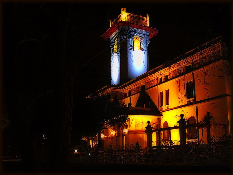 The Khedive Palace (Turkish : Hıdiv Kasrı) located on the Asian side of Bosphorus in Istanbul, Turkey, was a former residence of Khedive Abbas II of Egypt.